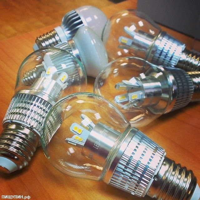 Led lamp in Russia